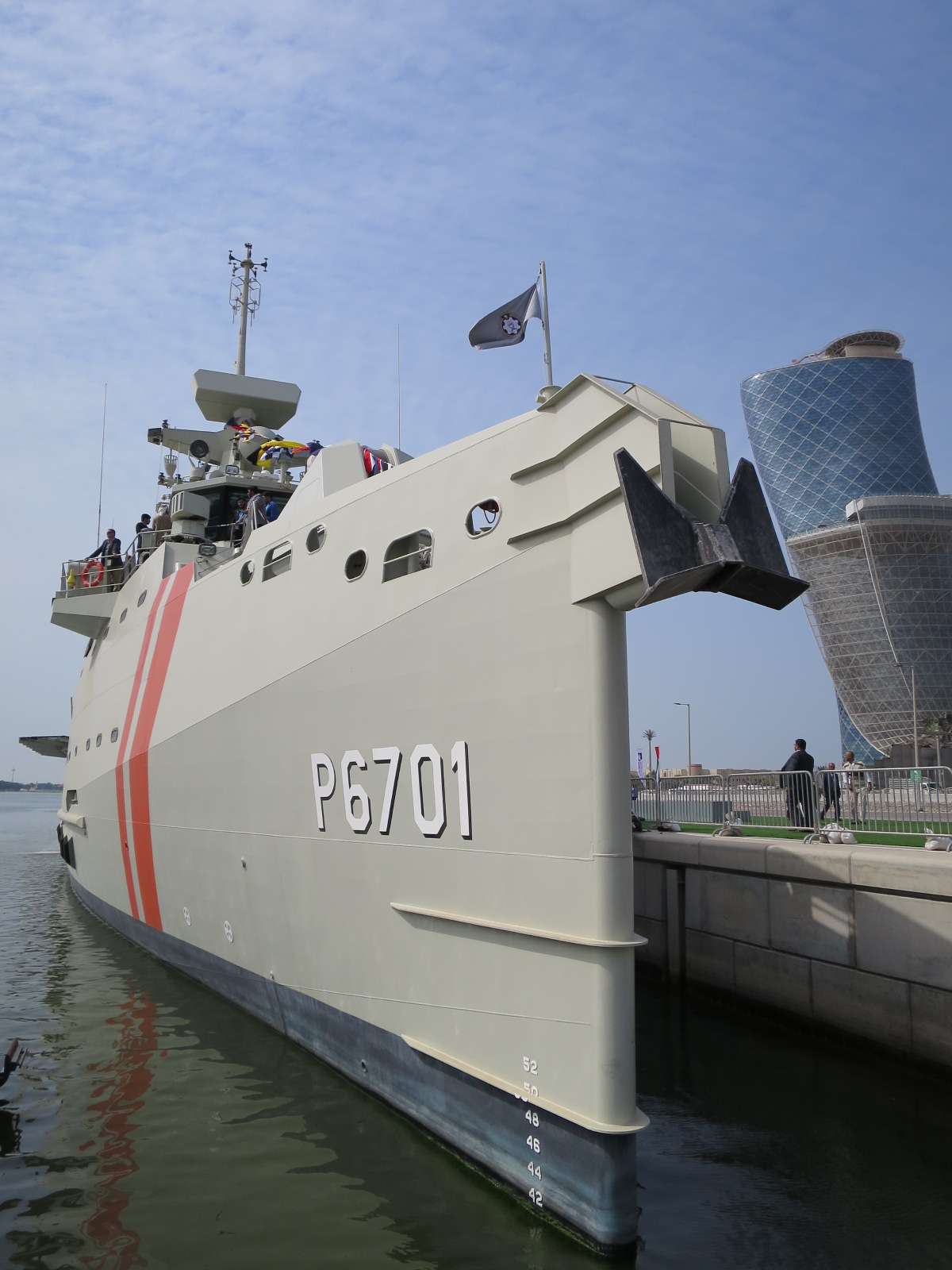 Arialah OPV axe-bow